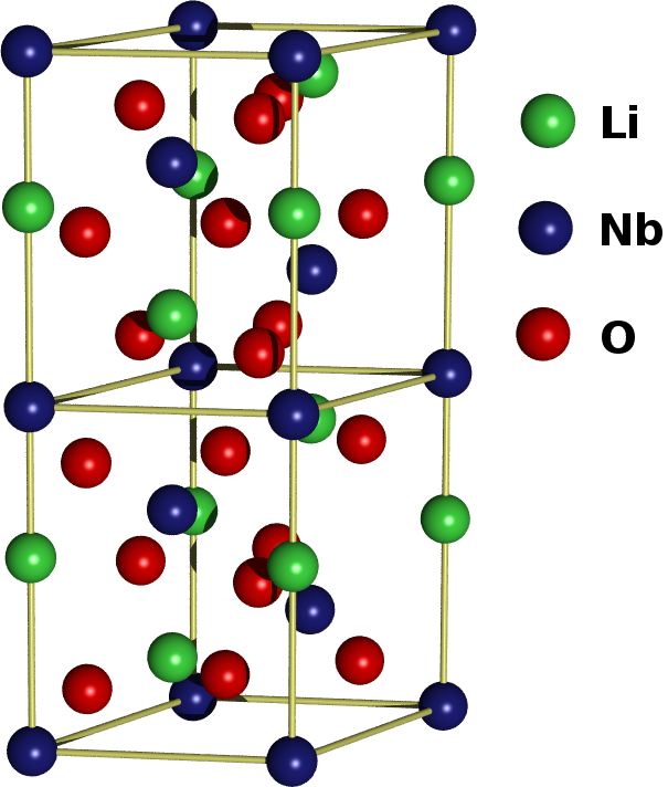 Hexagonal unit cell of lithium niobate (LiNbO3)